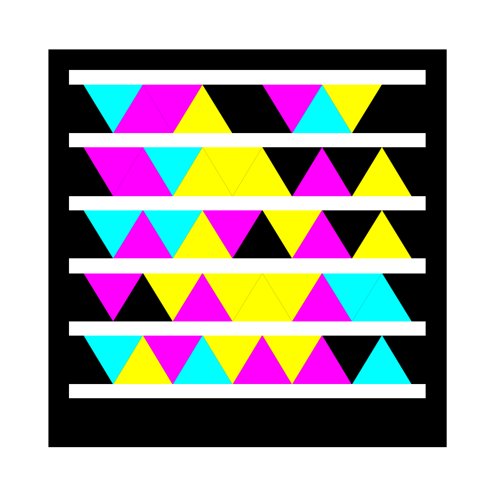 An HCCB Tag that is encoded with the URI